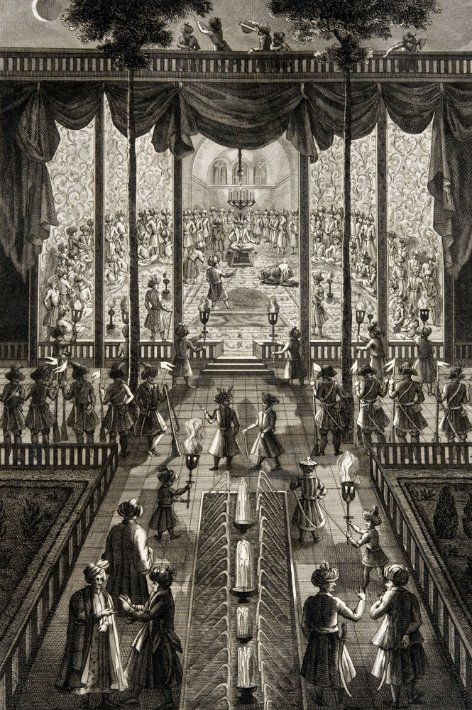 The Coronation of Shah Suleyman, presided over by Sheikholeslam of Isfahan-1666 The nineteen-year-old Sām Mirzā was enthroned under the name Ṣafi II, on 1 Rabiʿ II 1077/1 October 1666, at one o’clock in the afternoon in a ceremony most likely presided over by Moḥammad-Bāqer Sabzavāri, the šayḵ-al-Eslām of Isfahan. The shah’s second enthronement took place on Nowruz, 10 Šawwāl 1078/20 March 1668, at 9 a.m. in the Čehel Sotun palace, in a ceremony presided over by Moḥammad-Bāqer Sabzavāri, the šayḵ-al-Eslām of Isfahan